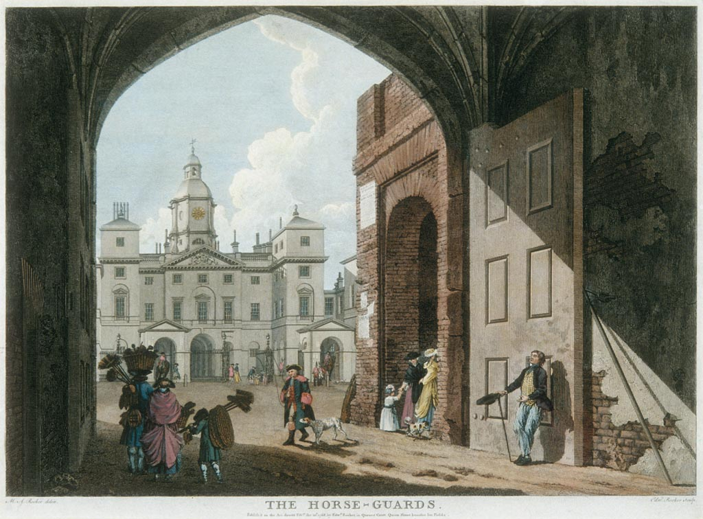 A view of Horse Guards, from Edward Rooker's "Six Views of London"